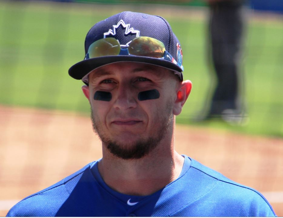 Troy Tulowitzki going to the dugout